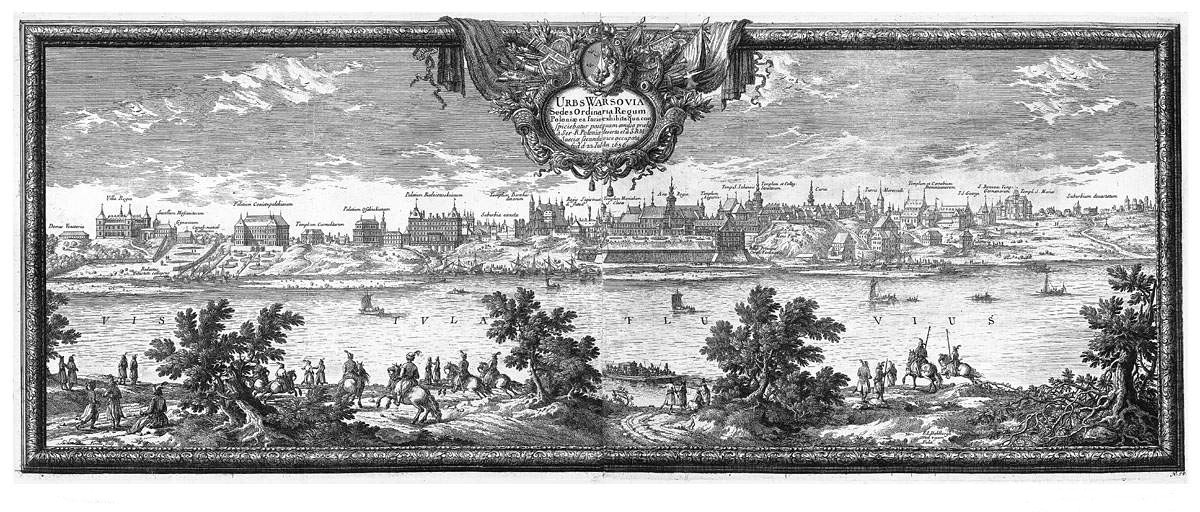 Panorama of Warsaw as seen from the Praga bank in about 1656.